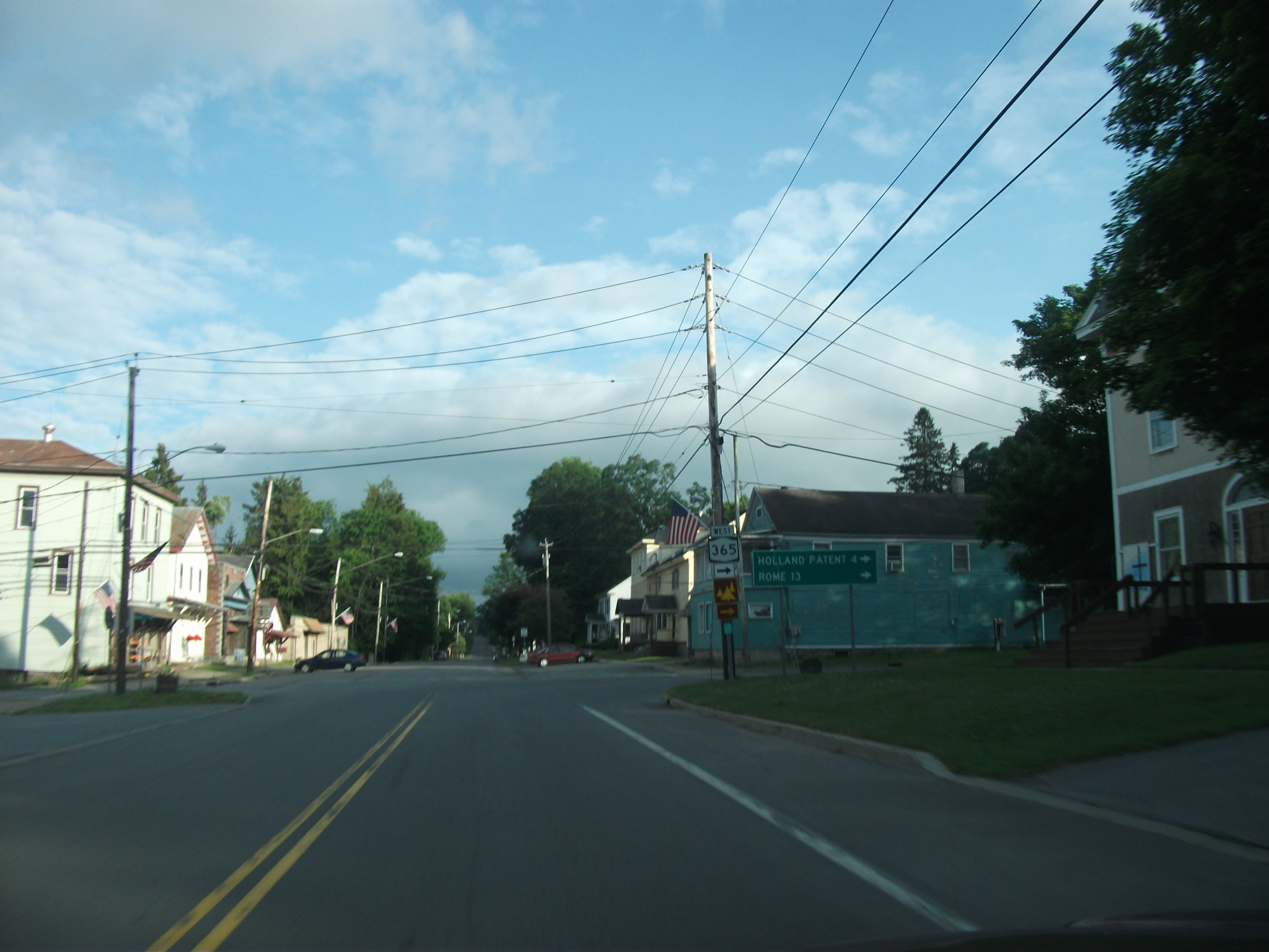 New York State Route 365 (NY 365) at junction with NY 921D (Mappa Avenue)